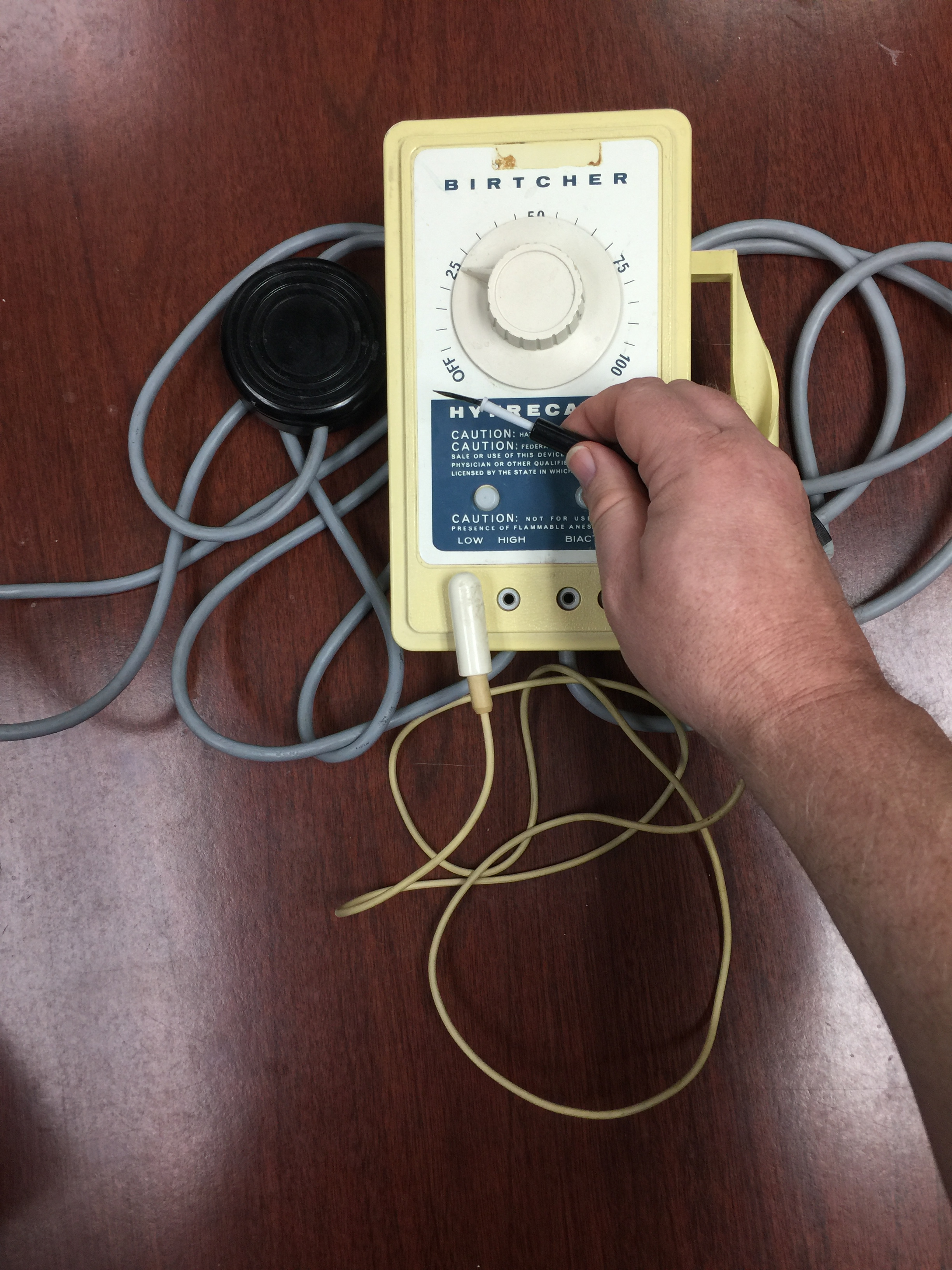 A Birtcher Hyfrecator manufactured March 1982. The power cord is at right and foot controlled on/off switch at left. Held in hand for scale is one of many detachable electrodes. Here the electrode is a sharp-tipped unipolar type.